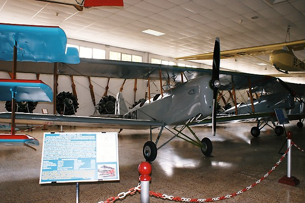 Hispano-Suiza HS34 of AN. 4/10.